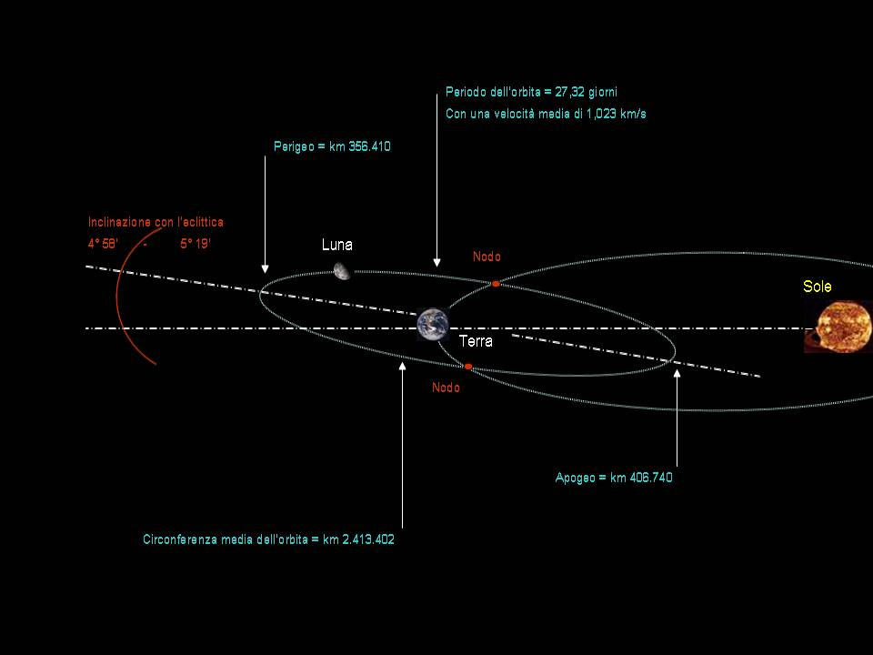 Orbit and data of the Moon